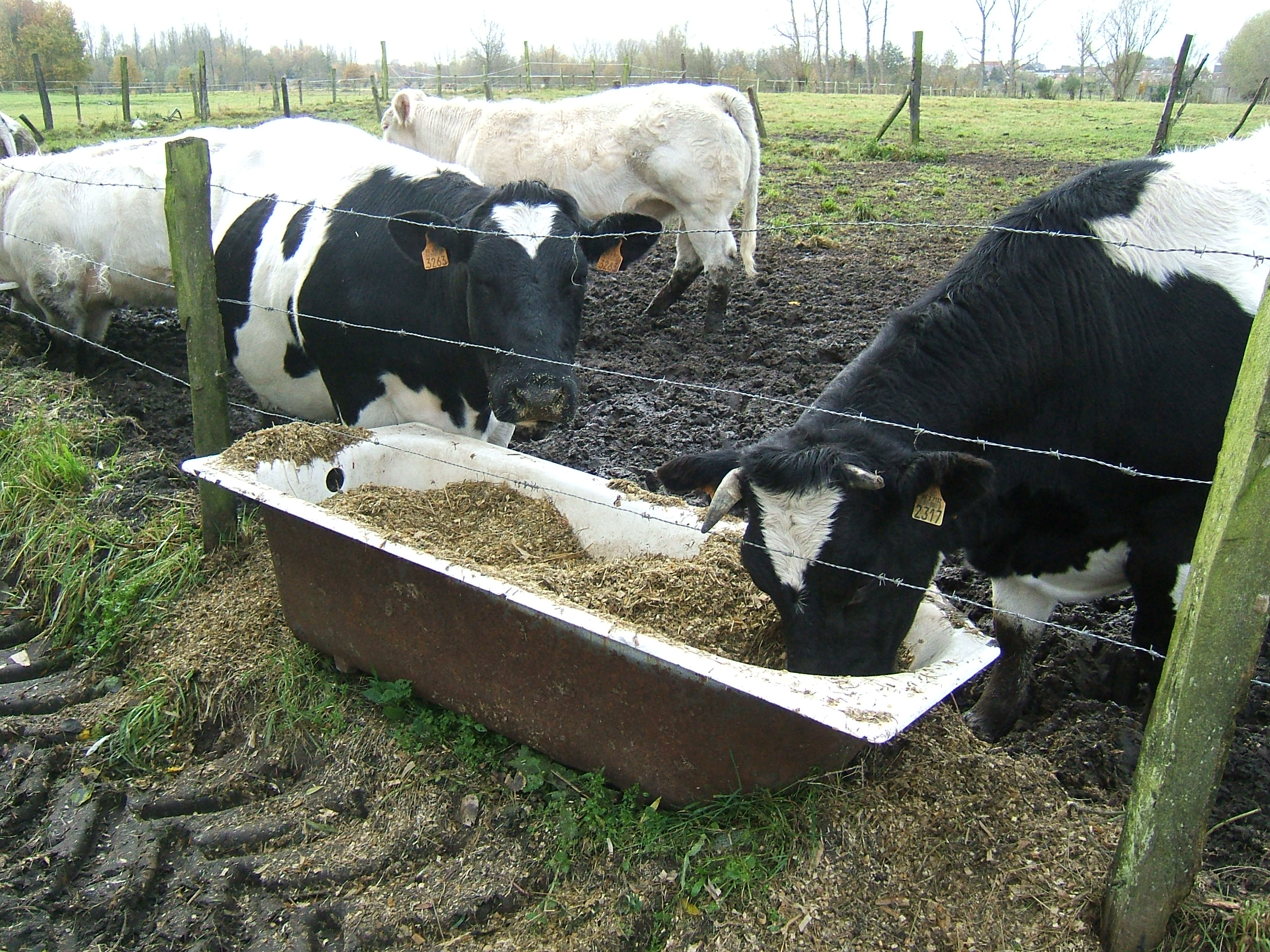 Cattle eating corn silage, East Flanders, Belgium